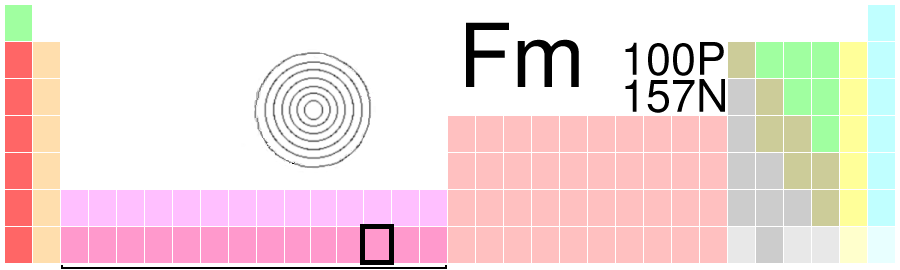 Create by User:Ahoerstemeier similar to the other element boxes